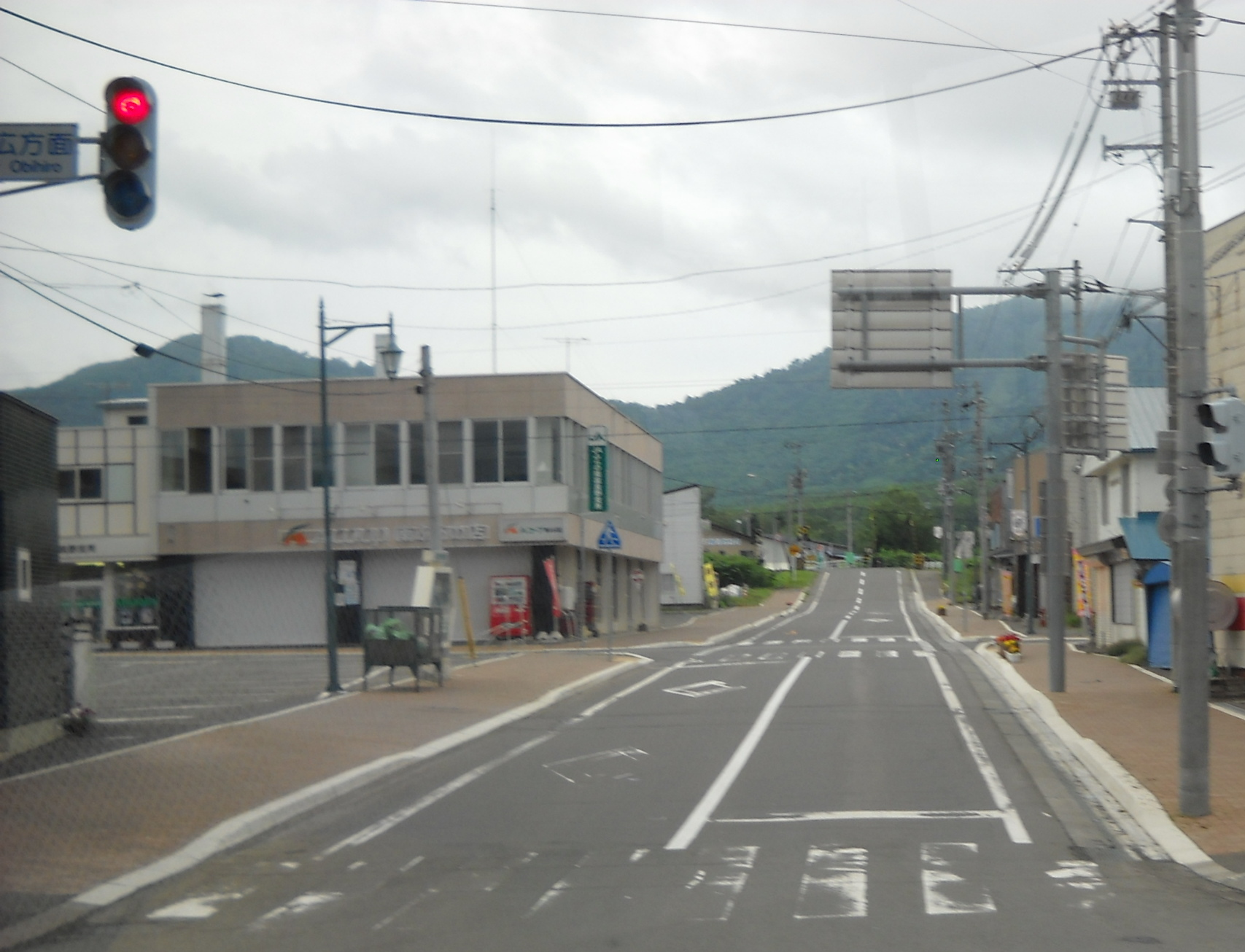 Hokkaido prefectural road route1030, Minami Furano, Hokkaido, Japan